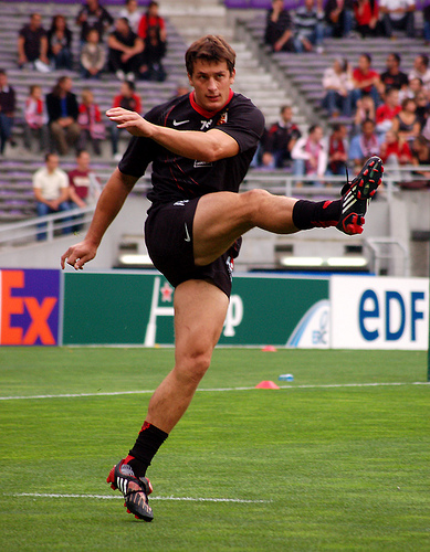 Toulouse pre-match - Yannick Jauzion - Bath Rugby v Stade toulousain - 12 October 08 - Heineken Cup